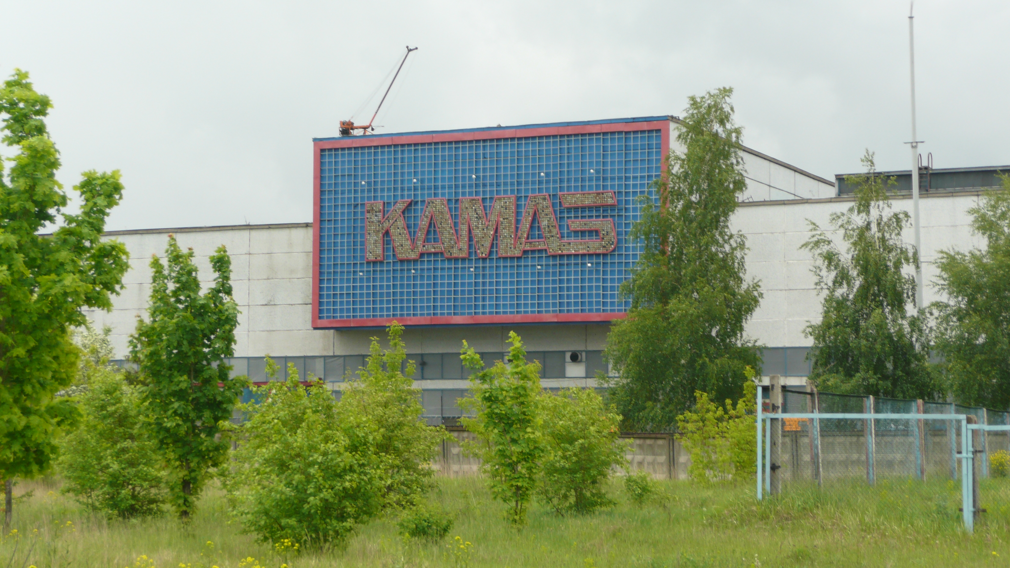 Kazan Workshop